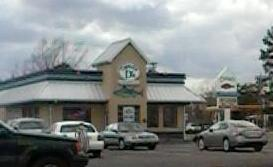 This is a photograph of the Captain D's on the lot of Southgate Mall in Elizabeth City, North Carolina. Notice the current logo on the sign, while the building itself retains the previous "plate" logo. The main difference is that I edited to show only the picture and not my car interior.